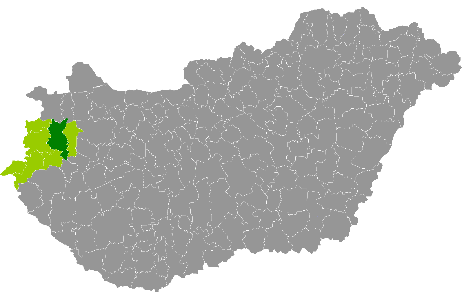 Location of Sárvár District, Vas, Hungary